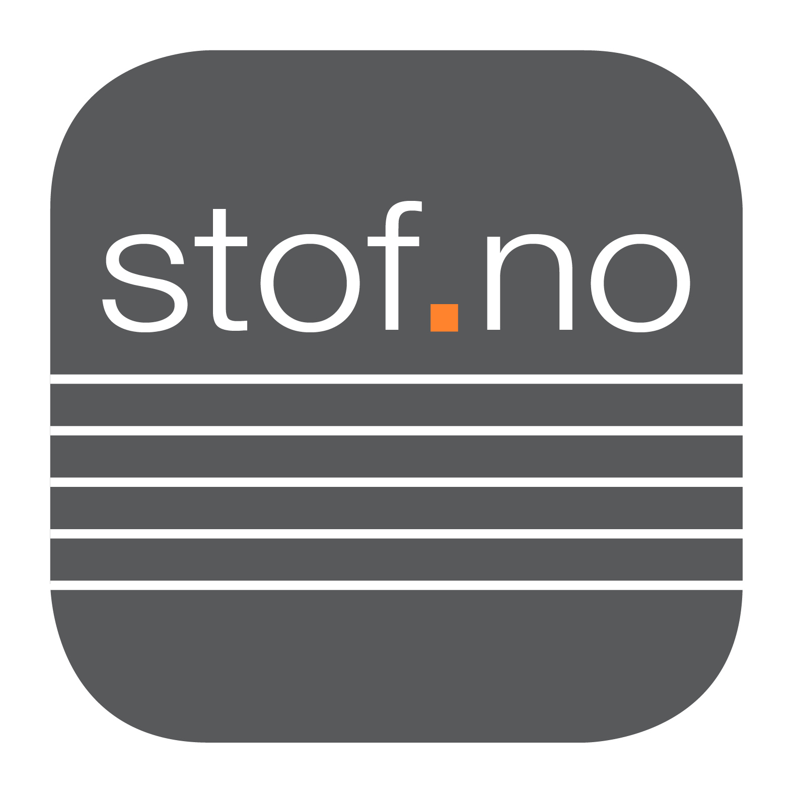 The logo of the Norwegian amateur symphony orchestra Sør-Trøndelag Orkesterforening, designed by Tor M. Hetland